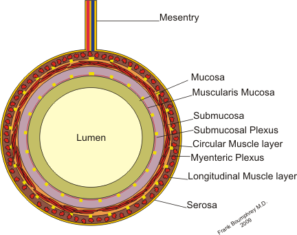 Schematic drawing showing layers of small intestine